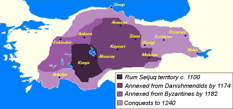 Map of the Anatolian Seljuk Sultanate in 1243. I made this by using the information of this map